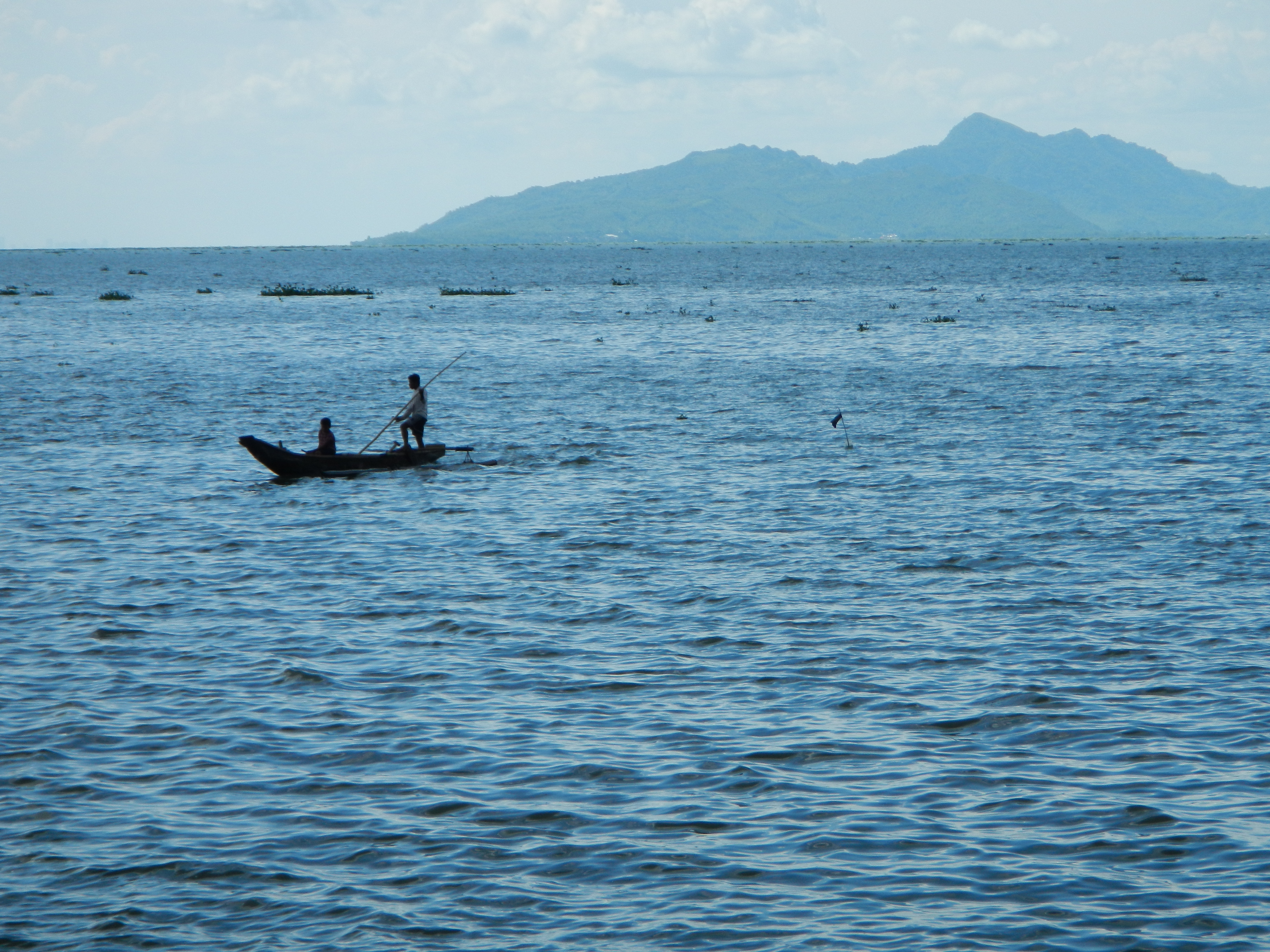 Barangay San Antonio De Bay[1] [2] Aplaya, with Barangay Hall's basketball Court, gymnasium and mini-Chapel and Laguna de Bay and [3] Mount Makiling [4] in --- Bay, Laguna[5] (is a second class[6] municipality politically subdivided into 15 barangays, one of the oldest towns in the province of Laguna[7], Philippines, covering even Los Baños [8] and Calauan[9]. In 1581, Bay became the capital of the Province of Laguna de Bay and remained so until 1688 when the capital was moved to Pagsanjan. The Patron of Bay is Saint Augustine of Hippo [10] celebrating his Feast Day during August 28. [11] Coordinates: 14°8'1"N 121°15'9"E [12] Laguna, Region 4, Philippines, Asia Geographical coordinates: 14° 10' 58" North, 121° 17' 5" East This place is situated in Laguna, Region 4, Philippines, its geographical coordinates are 14° 10' 58" North, 121° 17' 5" East and its original name (with diacritics) is Bay. LLDA [13]).